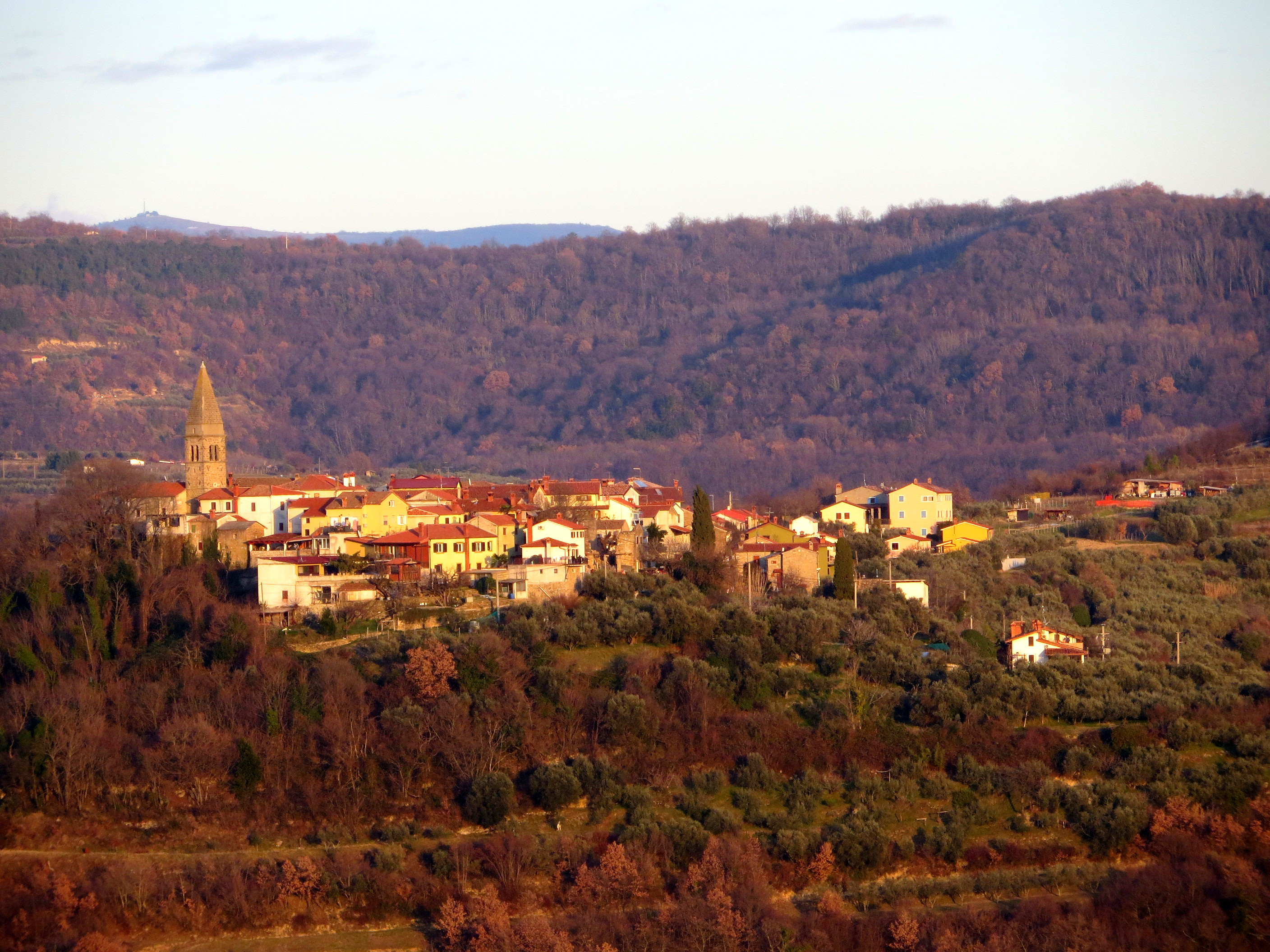 Padna, Municipality of Piran, Slovenia